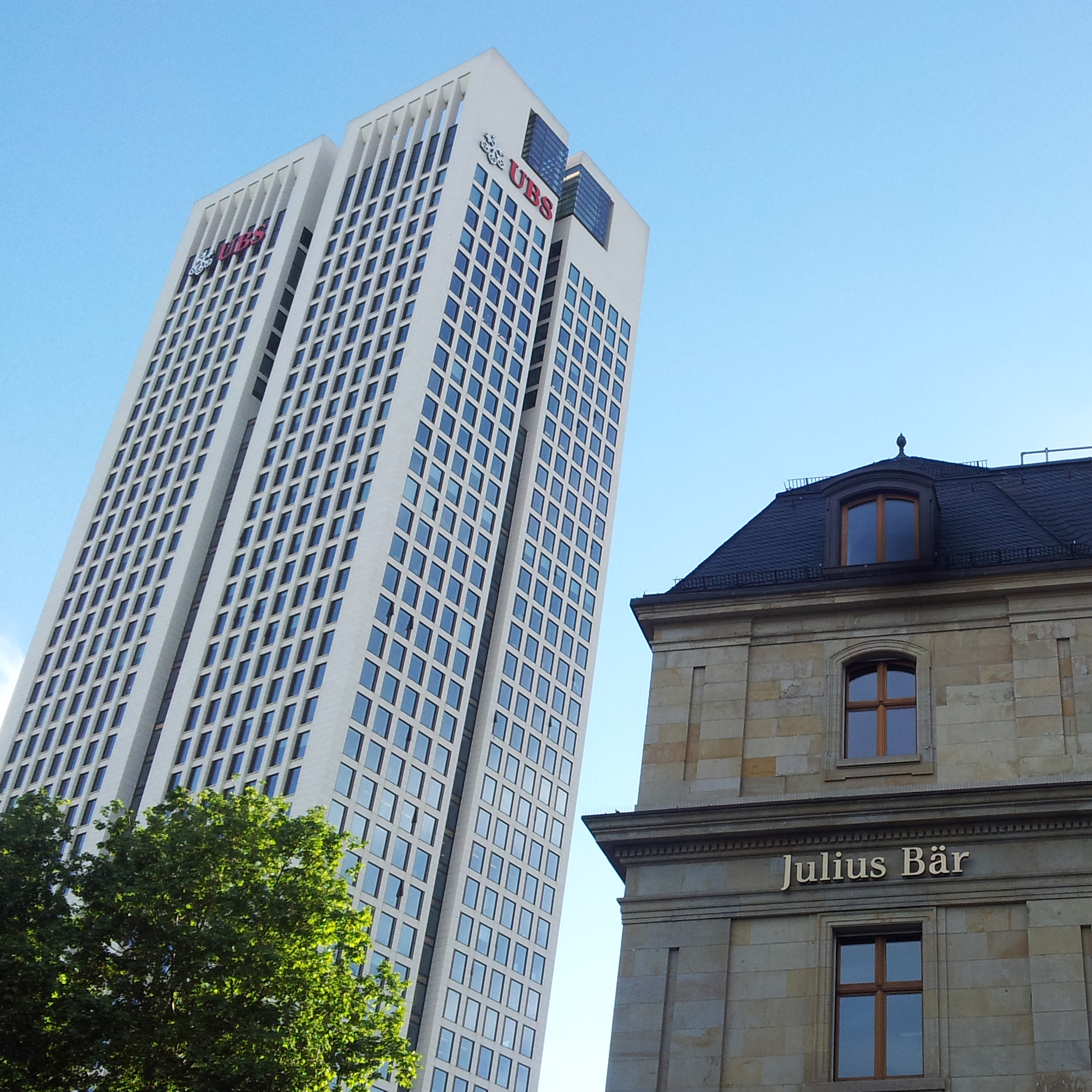 Two bank buildings near the Opera house in Frankfurt